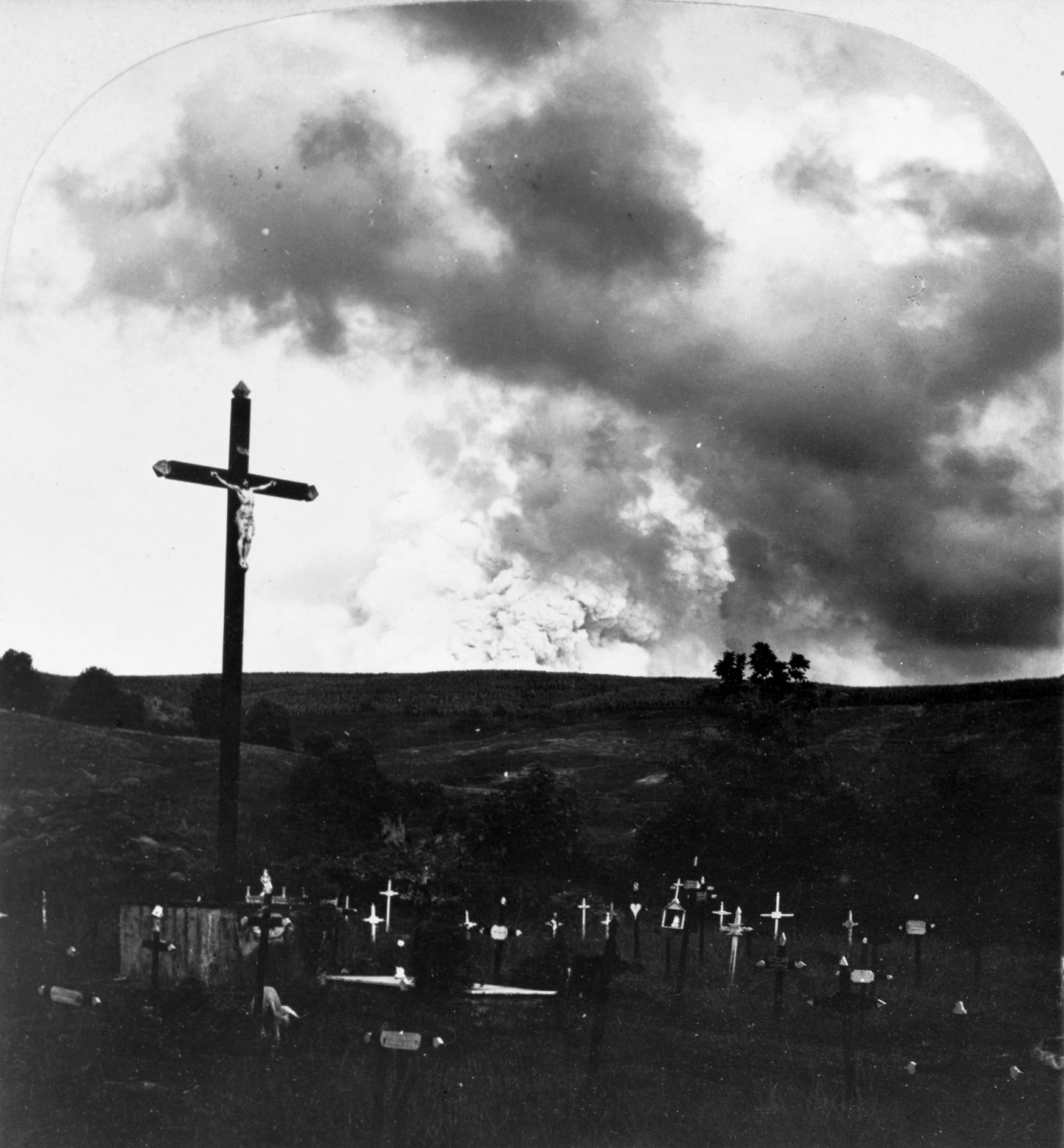 Eruption of Mount Pelée, Martinique, in 1902, with graveyard in foreground. Left half of a stereoscope card.